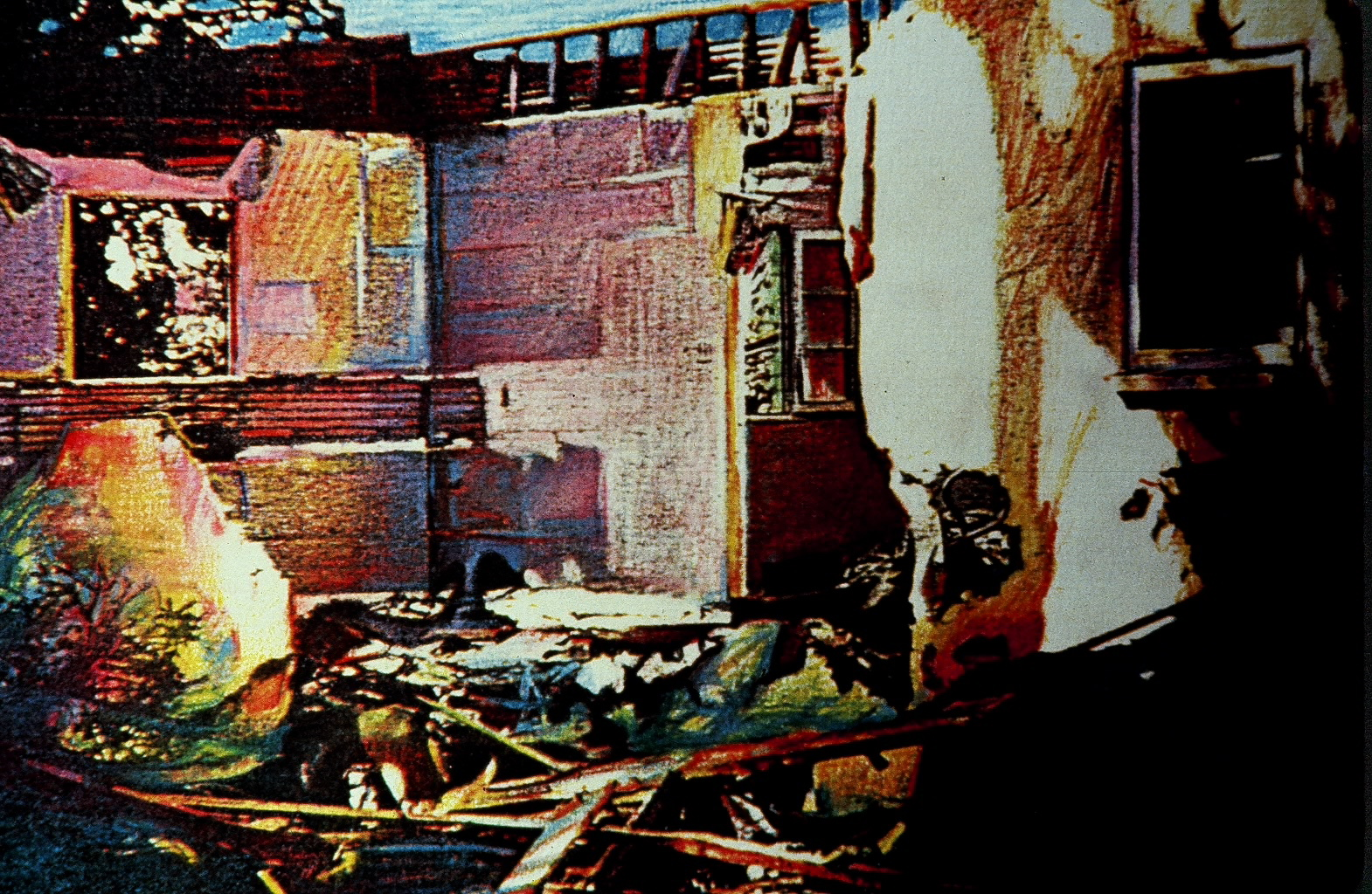 This is a color xerox and prismacolor piece by Carol Heifetz Neiman. Ms. Neiman was a Los Angeles-based feminist artist of the 1970's and 1980's.